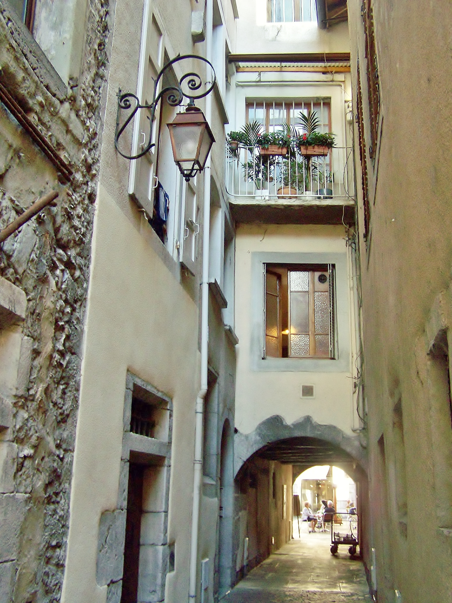 Sight of a historical monument façade from its inner courtyard, in Chambéry, Savoie, France.